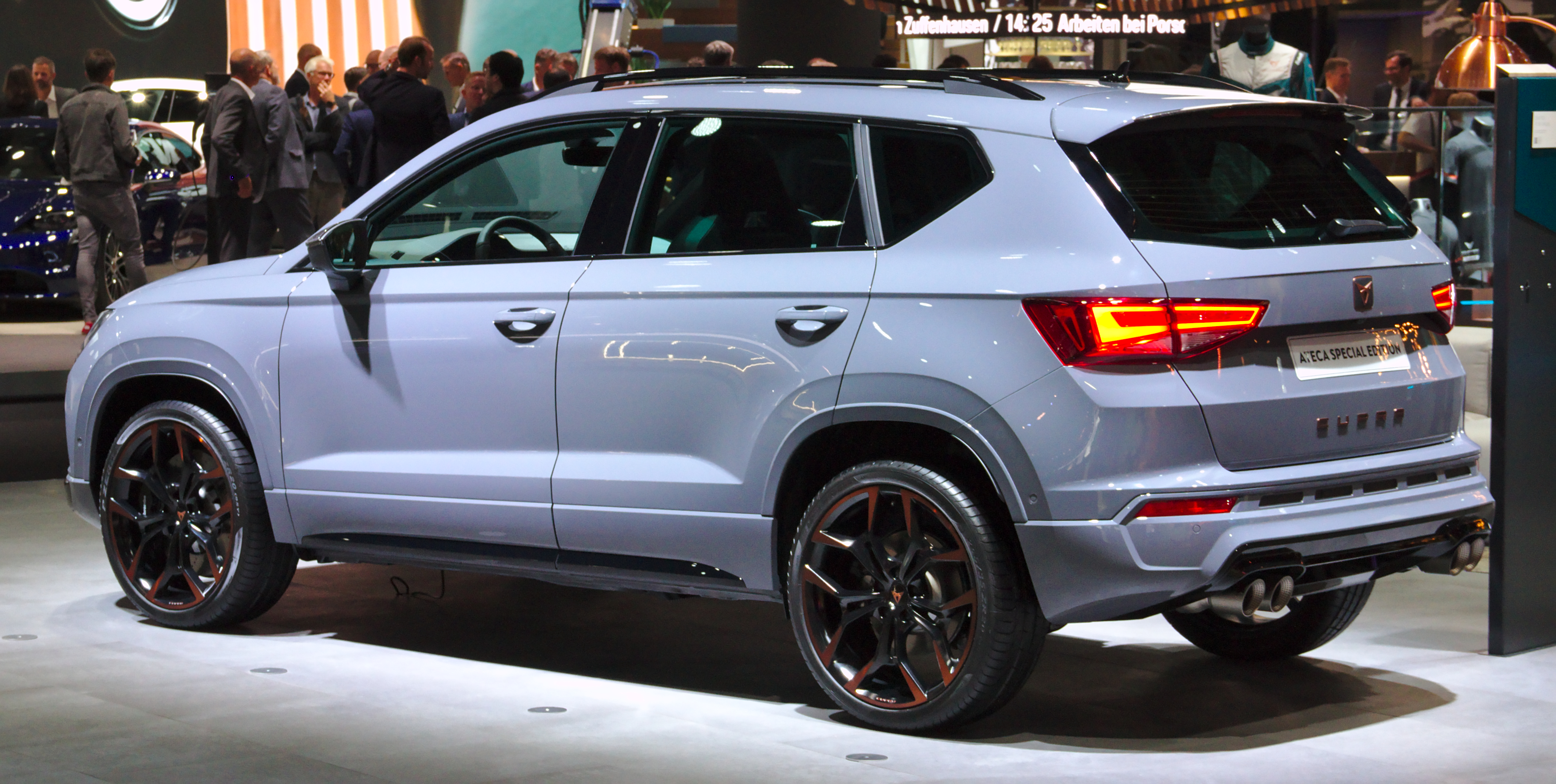 Cupra_Ateca at IAA 2019